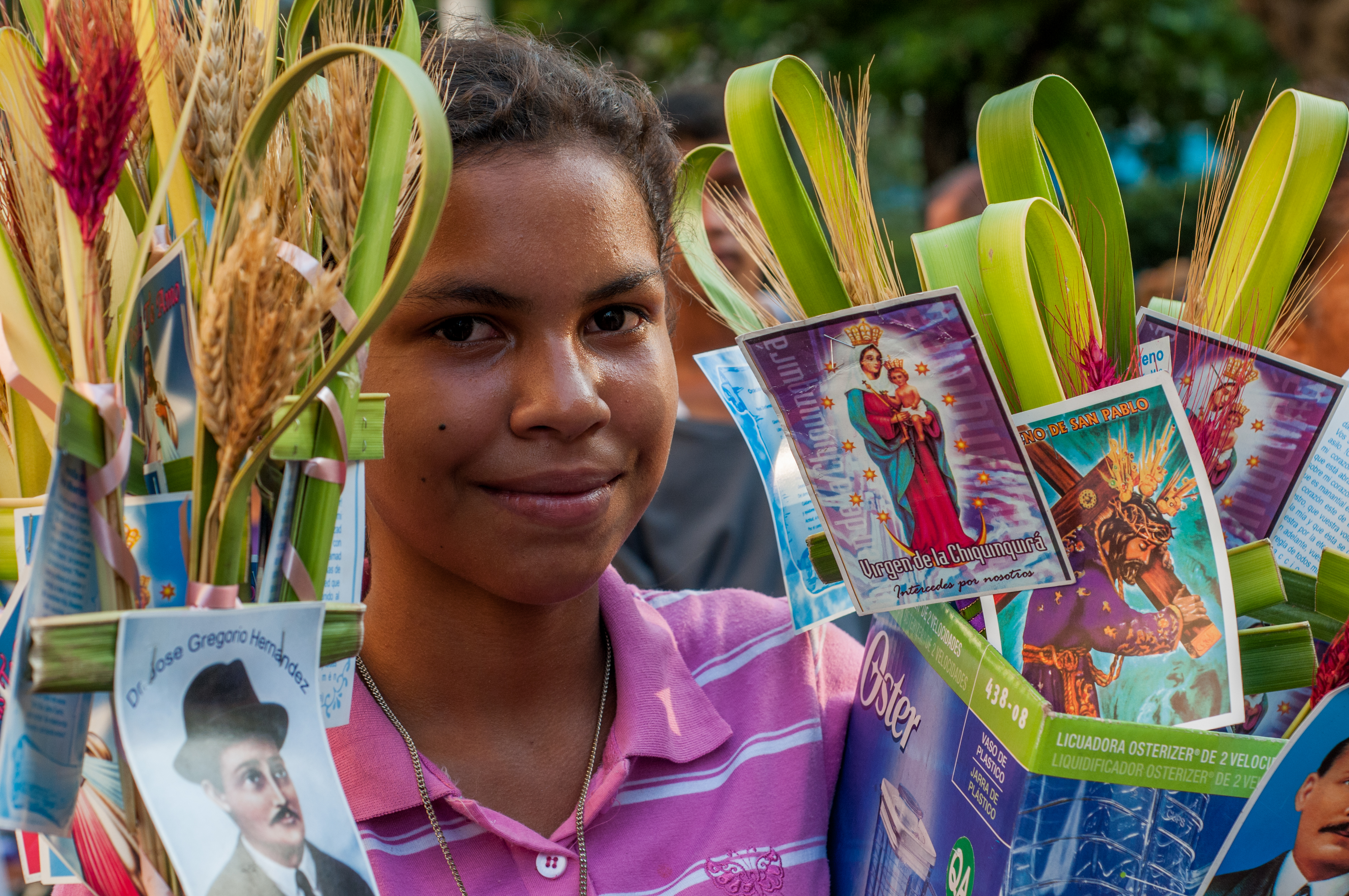 girl selling for Palm Sunday